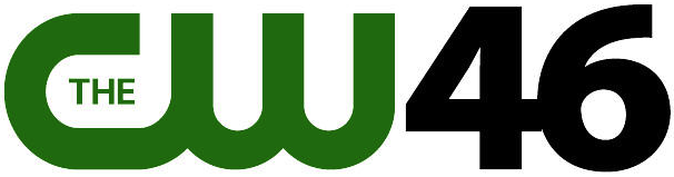 A former logo for WJZY-TV.